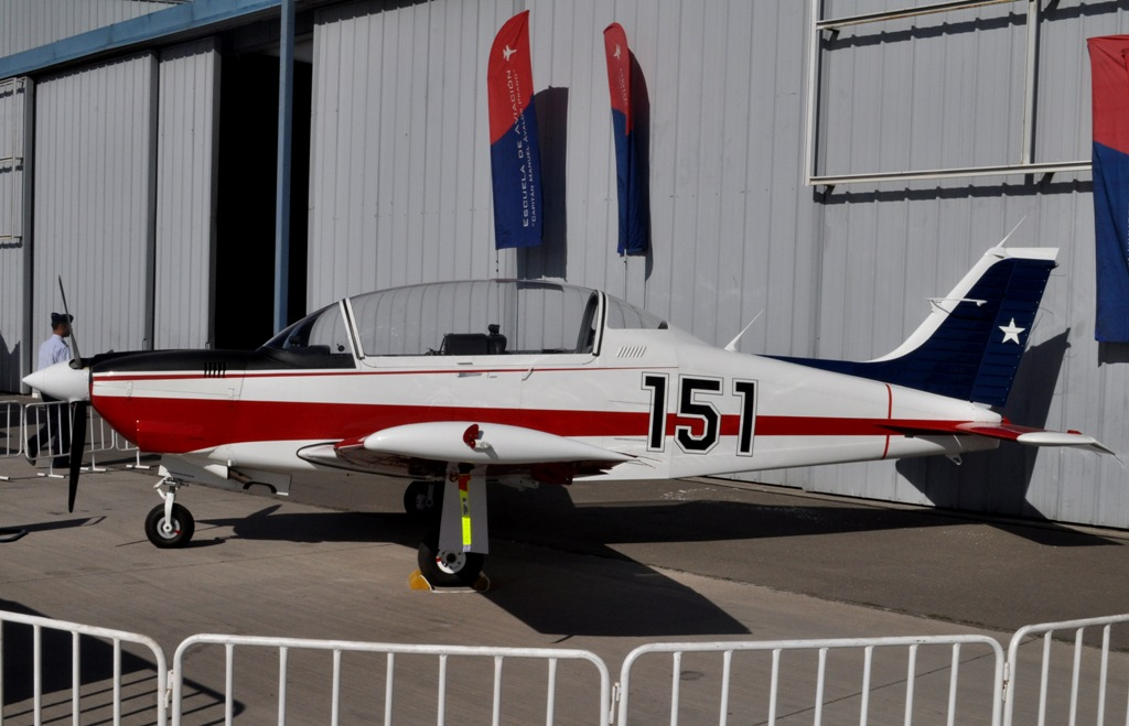 Pudahuel AFB, hile, March 2013